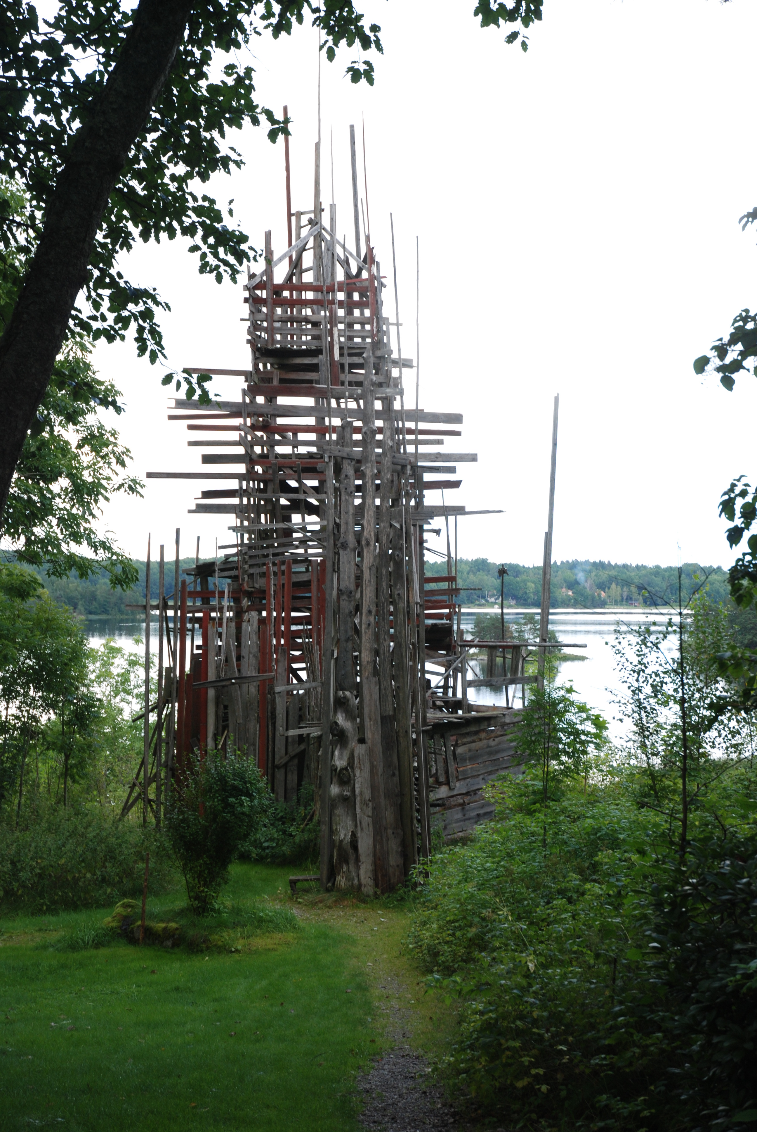 Dalonien av Lars Vilks utanför Dalslands konstmuseum